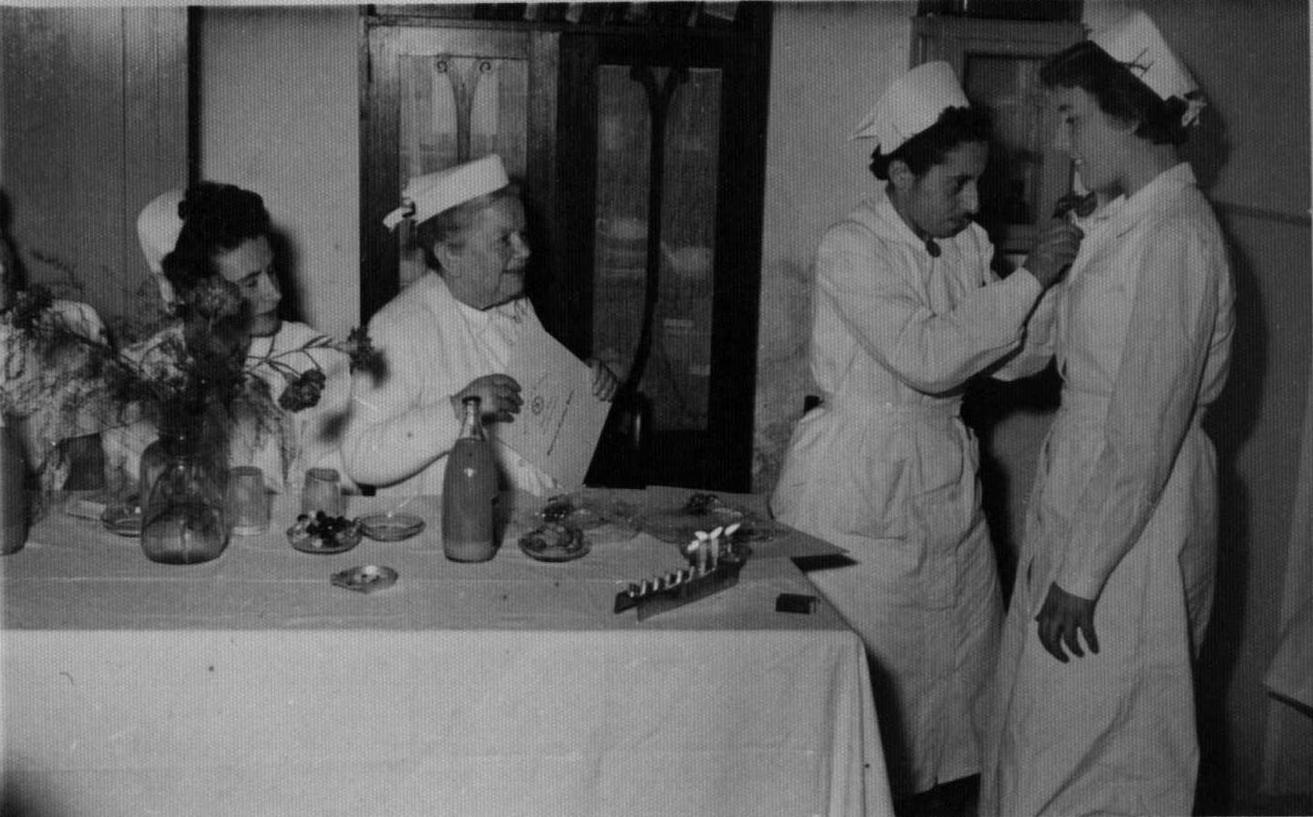 A professionally-trained nurse receives a nurse's pin as Schwester Selma Mair (first head nurse of Shaare Zedek Hospital), second left, looks on